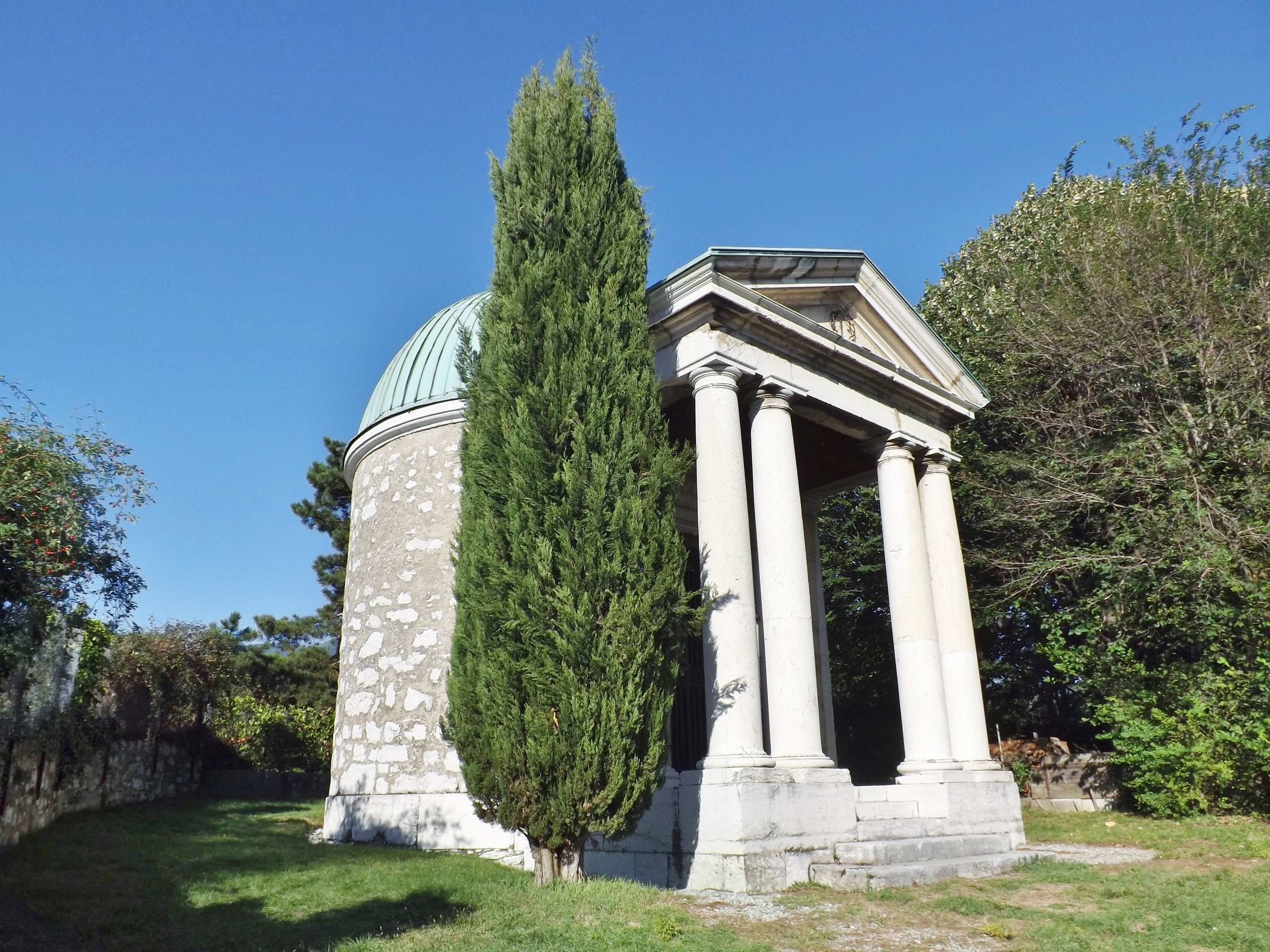 Sight of the Calvaire chapel of Chambéry, in Savoie, France.